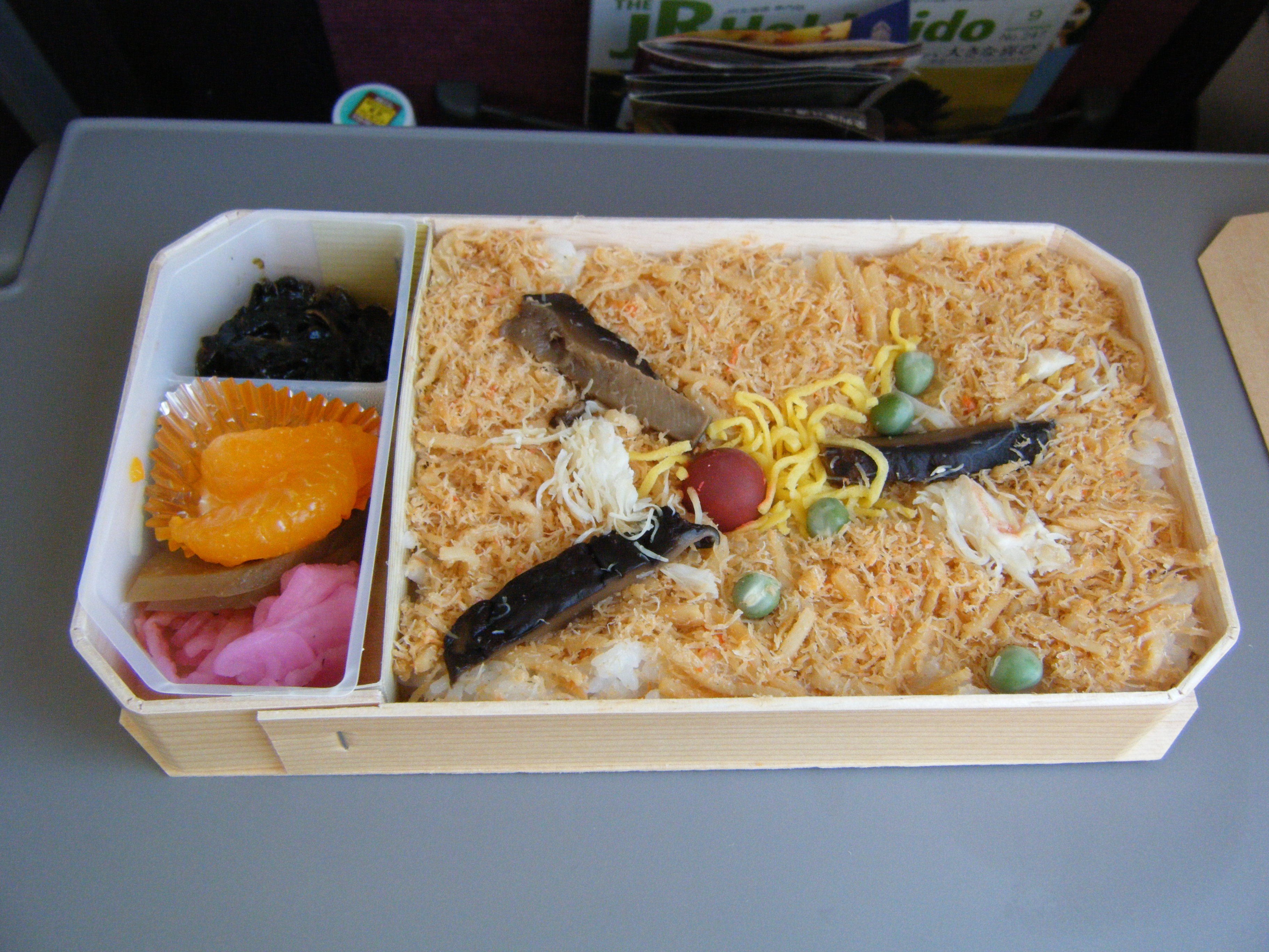 Crab and rice (JR Hokkaido lunches Oshamambe Station - Oshamanbe, Hokkaidō)